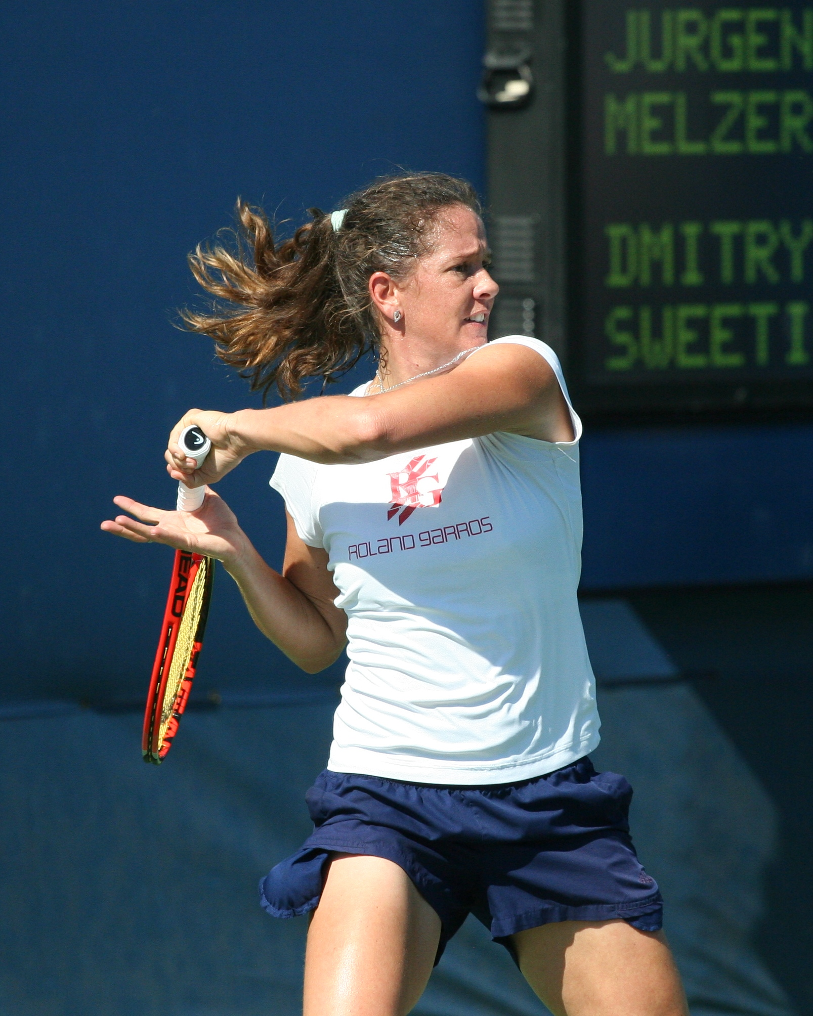 U.S. Open practice Monday, Aug. 30, 2010